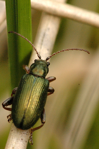 Picture taken in Commanster, Belgian High Ardennes . Species: Plateumaris rustica female